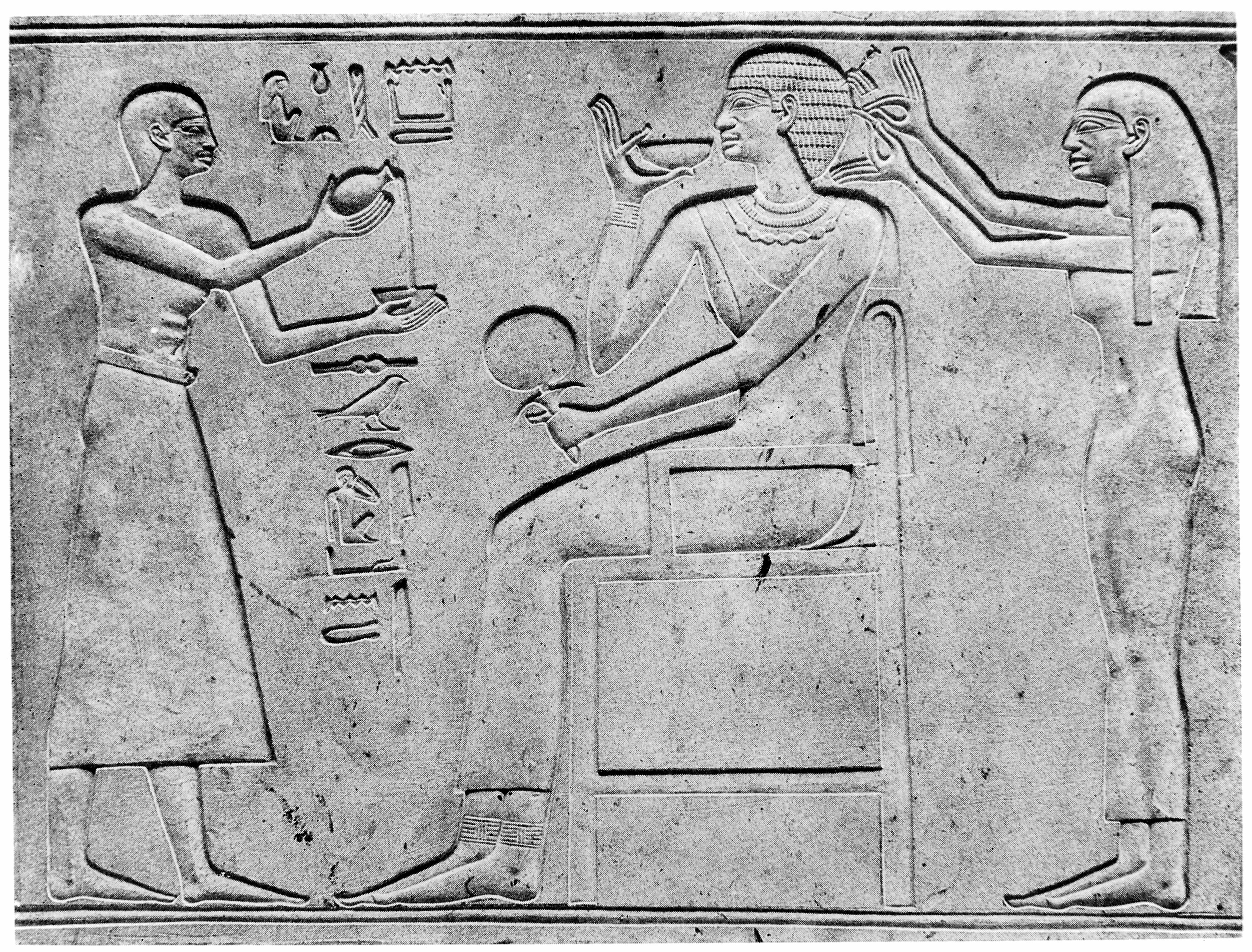 Princess Kaiwit having her hair dressed, a cup-bearer stands before her. Thebes, XII Dynasty. In the Cairo museum. General Collections Keywords: Kaivit; egyptology